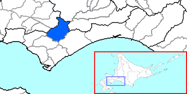 The location of Otaki in Iburi Subprefecture, Hokkaido Prefecture, Japan.